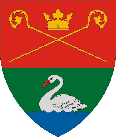 Coat of arms of Homorúd, Hungary